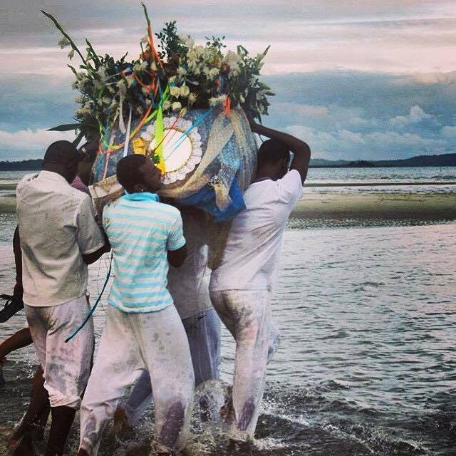 Gift to Yemanjá on Itapema's Beach